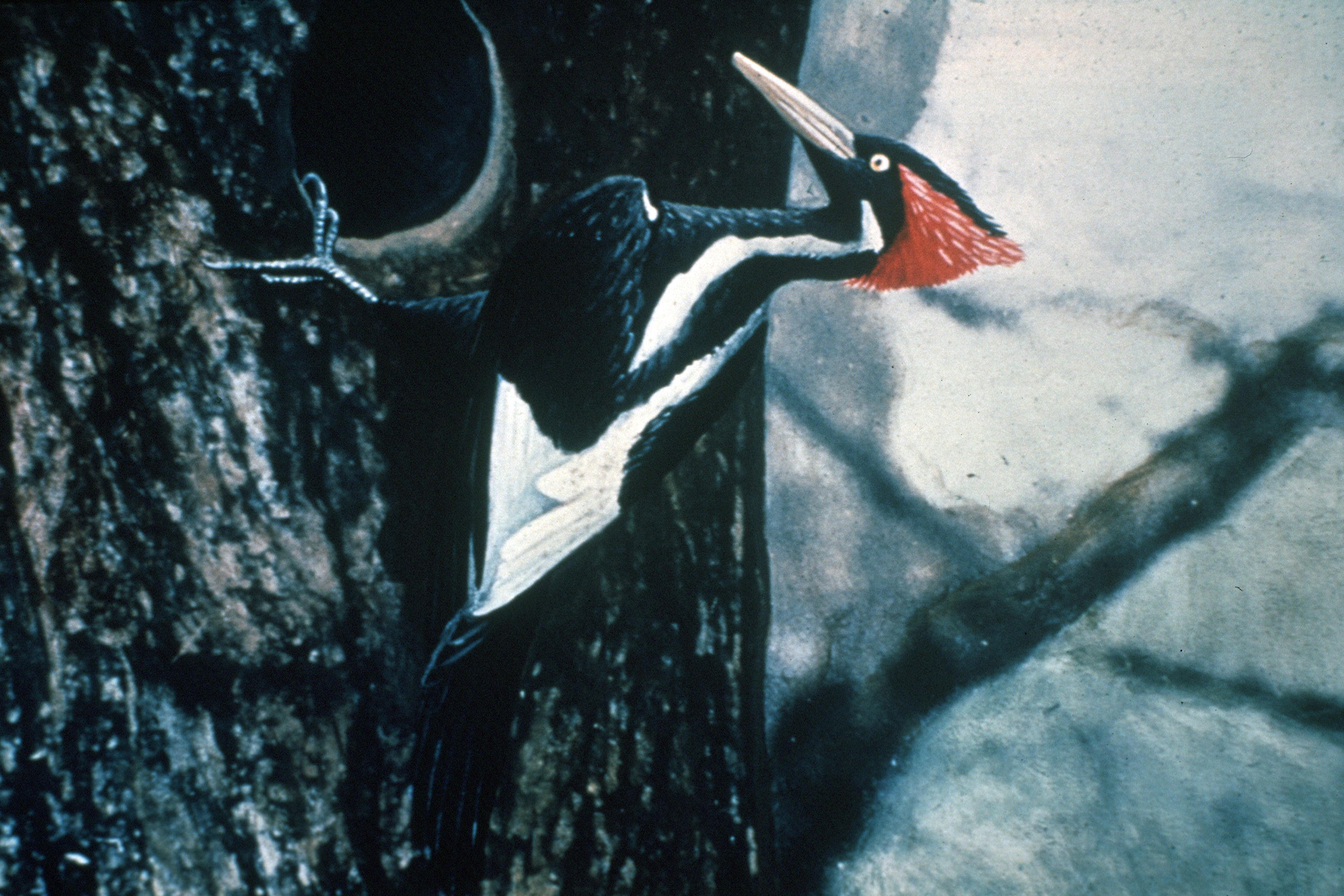 Male Ivory-billed Woodpecker. Believed to be extinct in the 1960-70's in the United States, but found in Cuba in 1980's. Photo by Arthur A. Allen, 1935, watercolored by Jerry A. Payne, United States Department of Agriculture (USDA) - Agricultural Research Service (ARS).